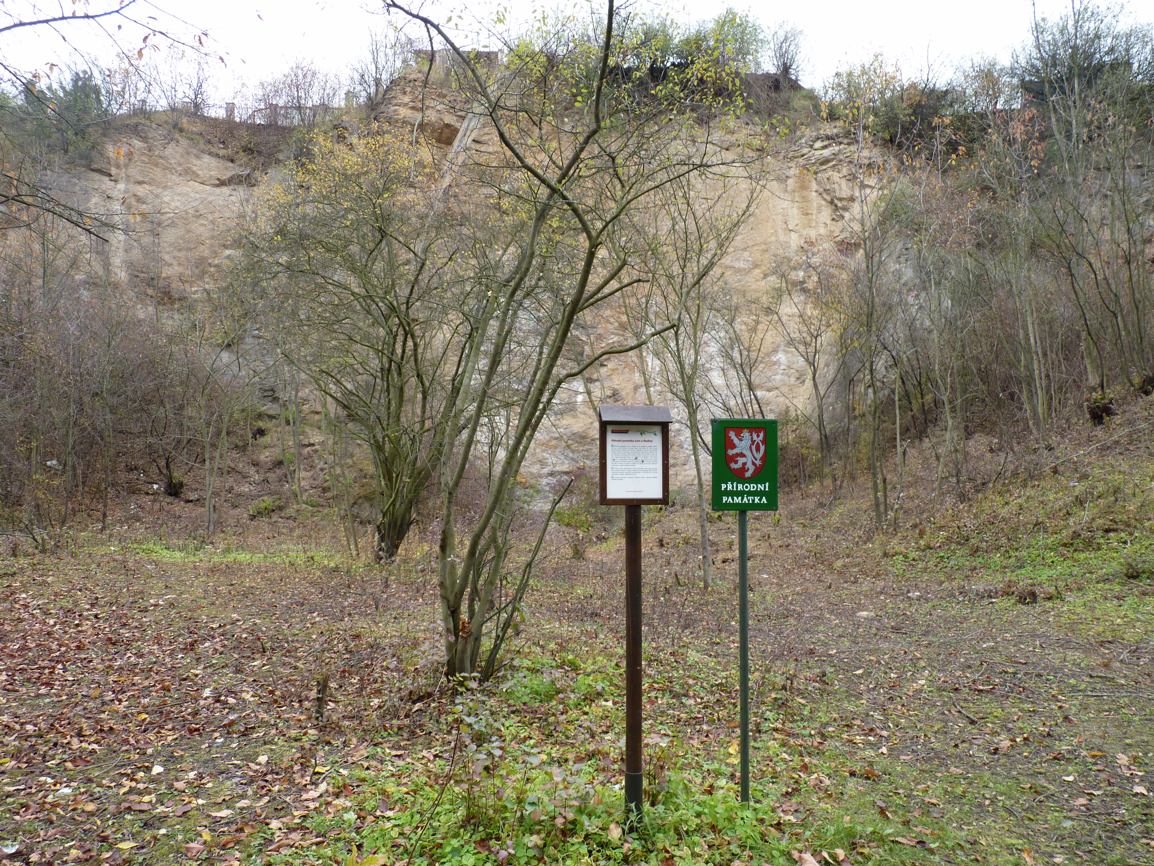 Lom u Radimi